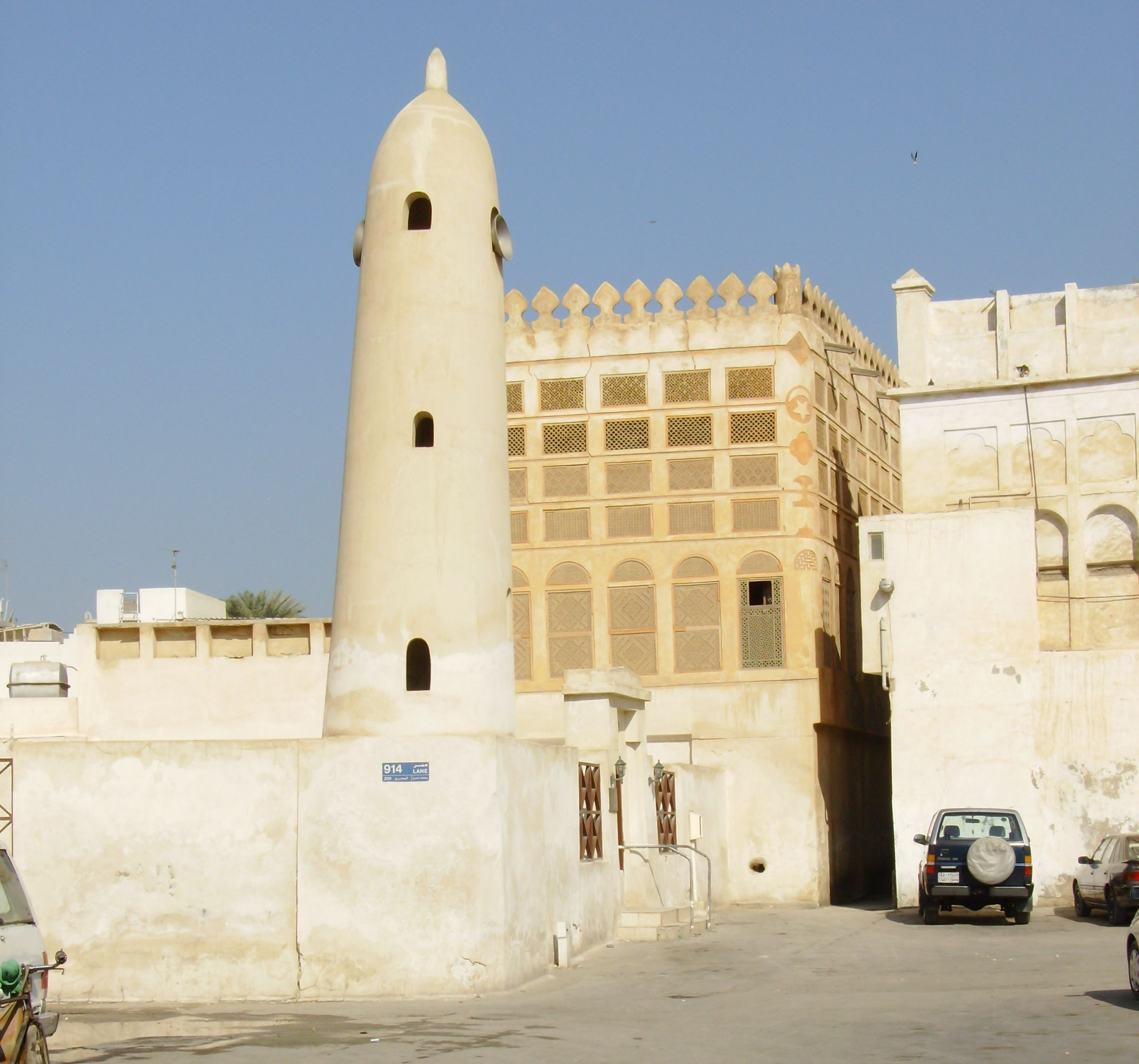 Siyadi mosque and bait al Siyadi, in Muharraq, Bahrain. Part of the Bahrain Pearling Trail.